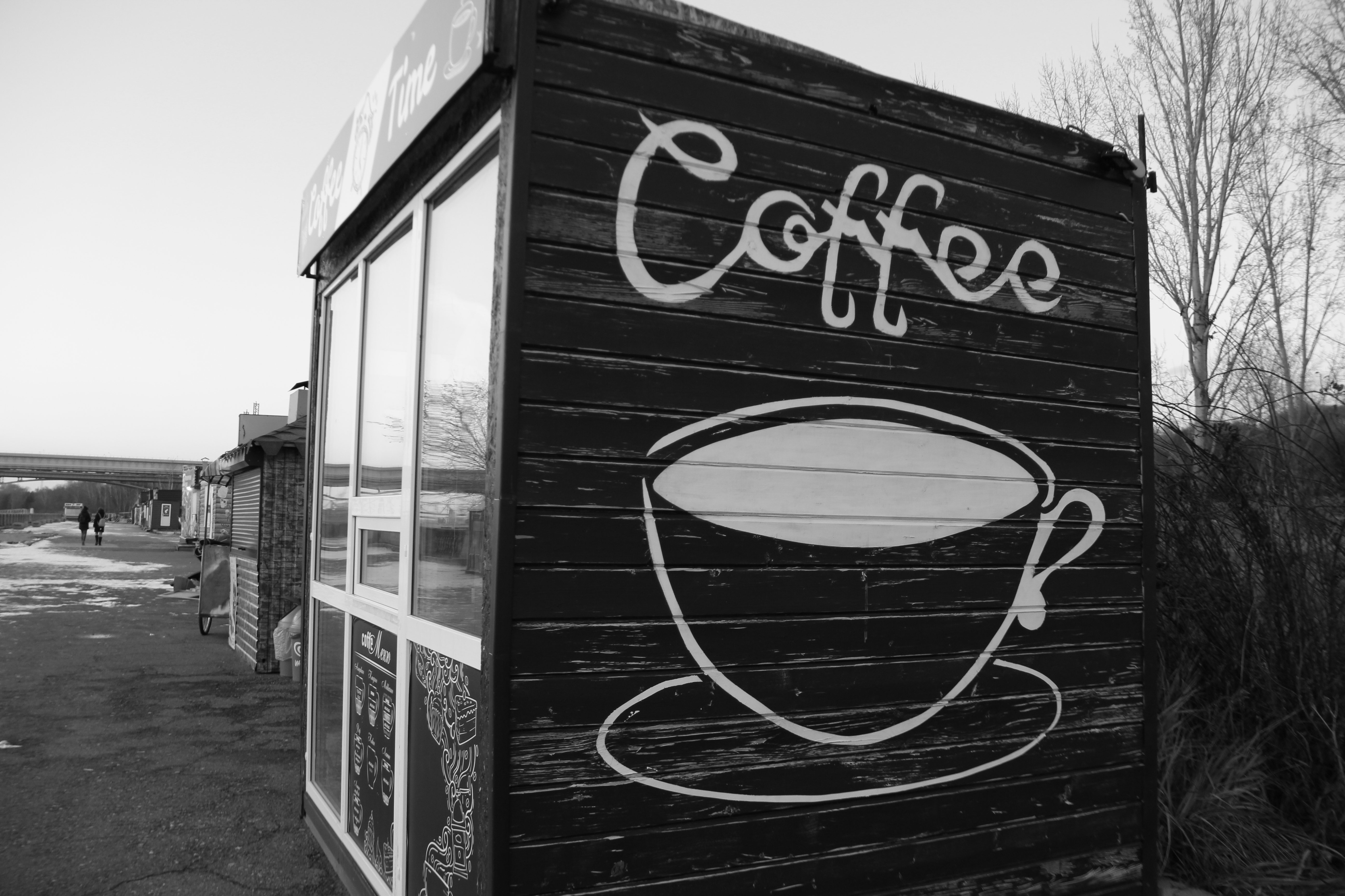 But not to cook if I have a Cup of pleasure. I took this quote from this website you can perceive this photo as you want, but my point is that sometimes we can't think of something function and can get stressful for any reason, and for this you need to boil a Cup of fun ;)